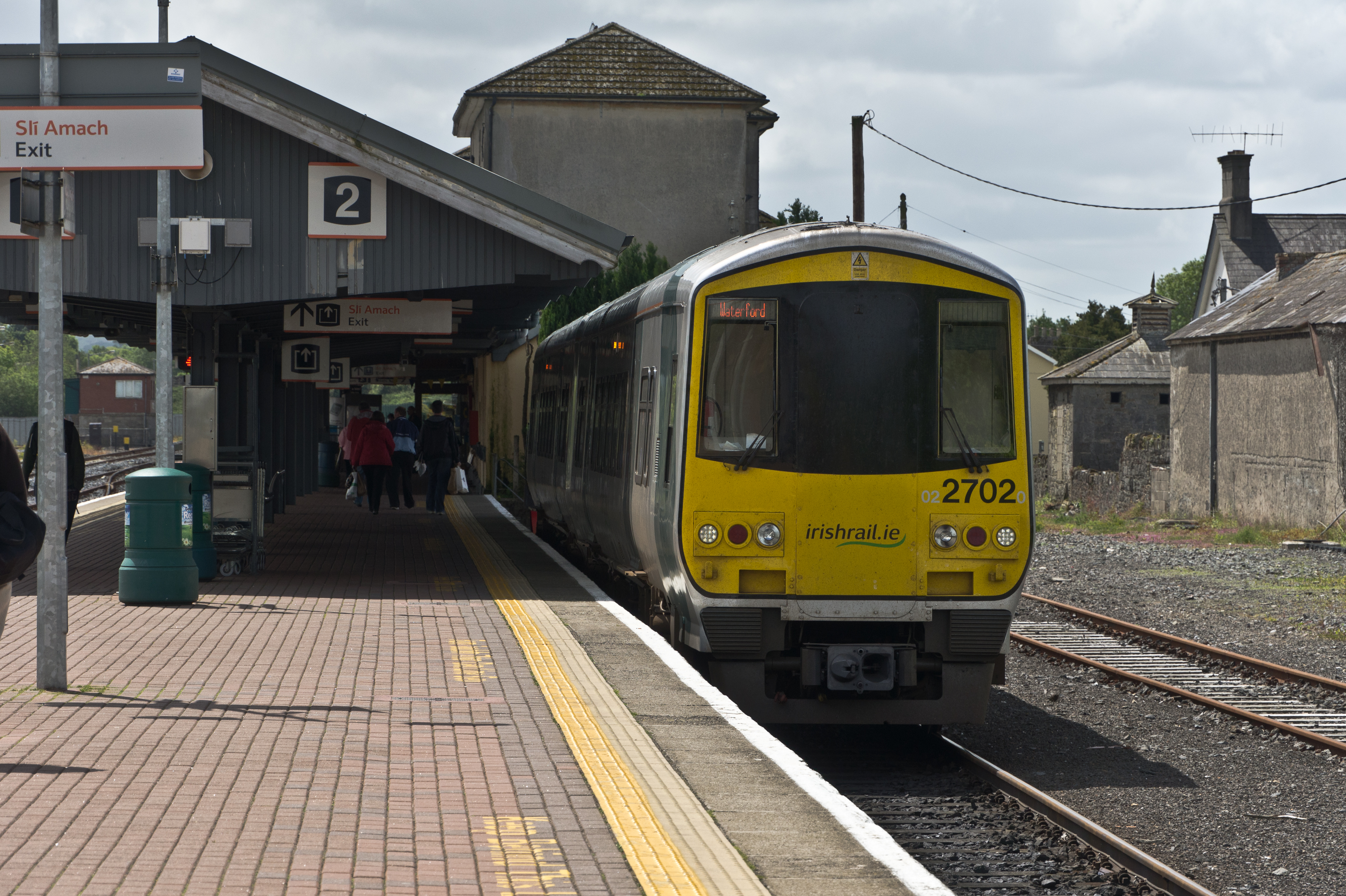 A Waterford train stationed at Limerick Junction